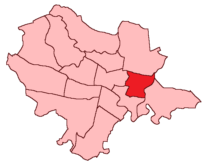 1918-1949 Glasgow_Camlachie Other information this is a simplified version of a map originally created by the UK Boundary Commission.